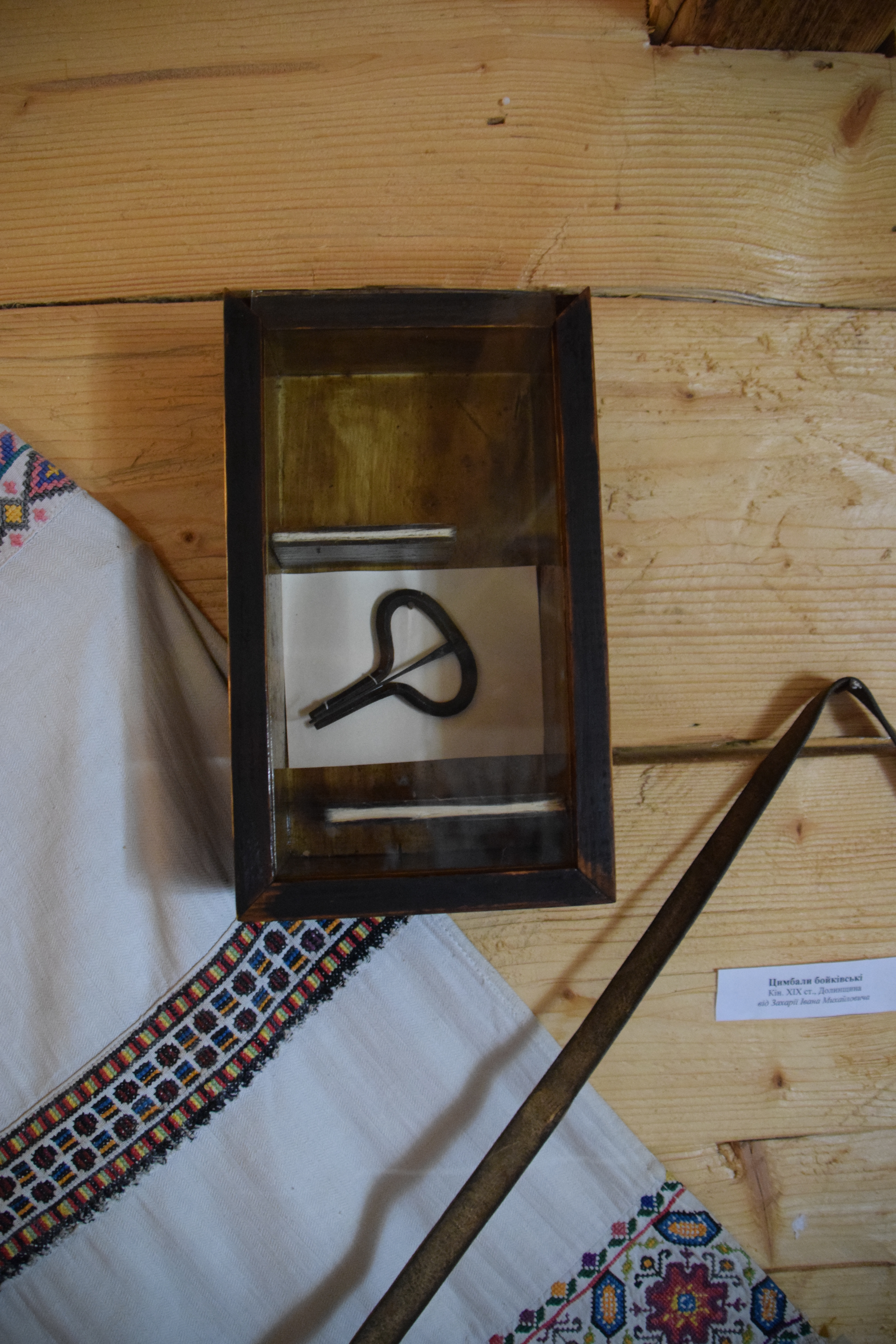 Permanent exhibition in Museum of Boyko culture, Dolyna, UA